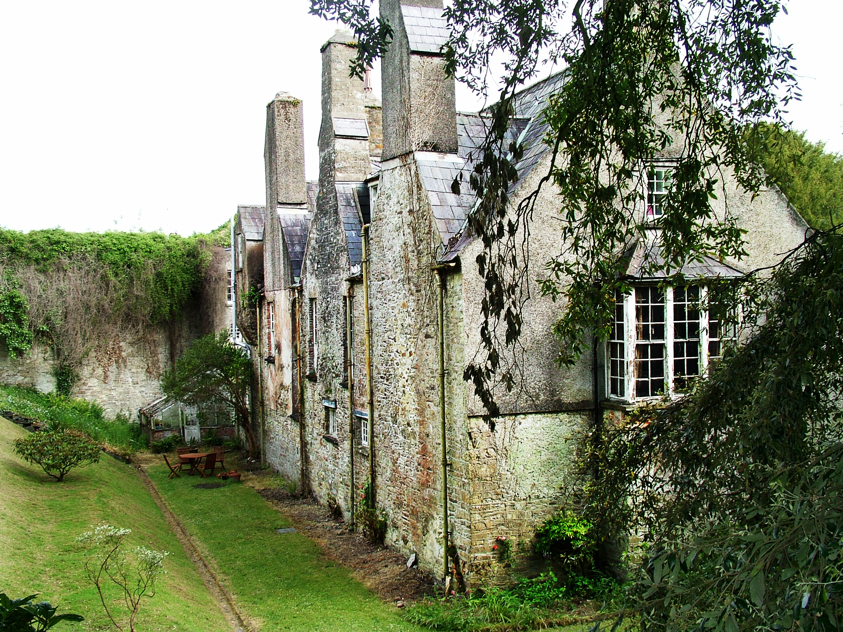 Myrtle Grove, Sir Walter Raleigh's residence when he was mayor of Youghal.